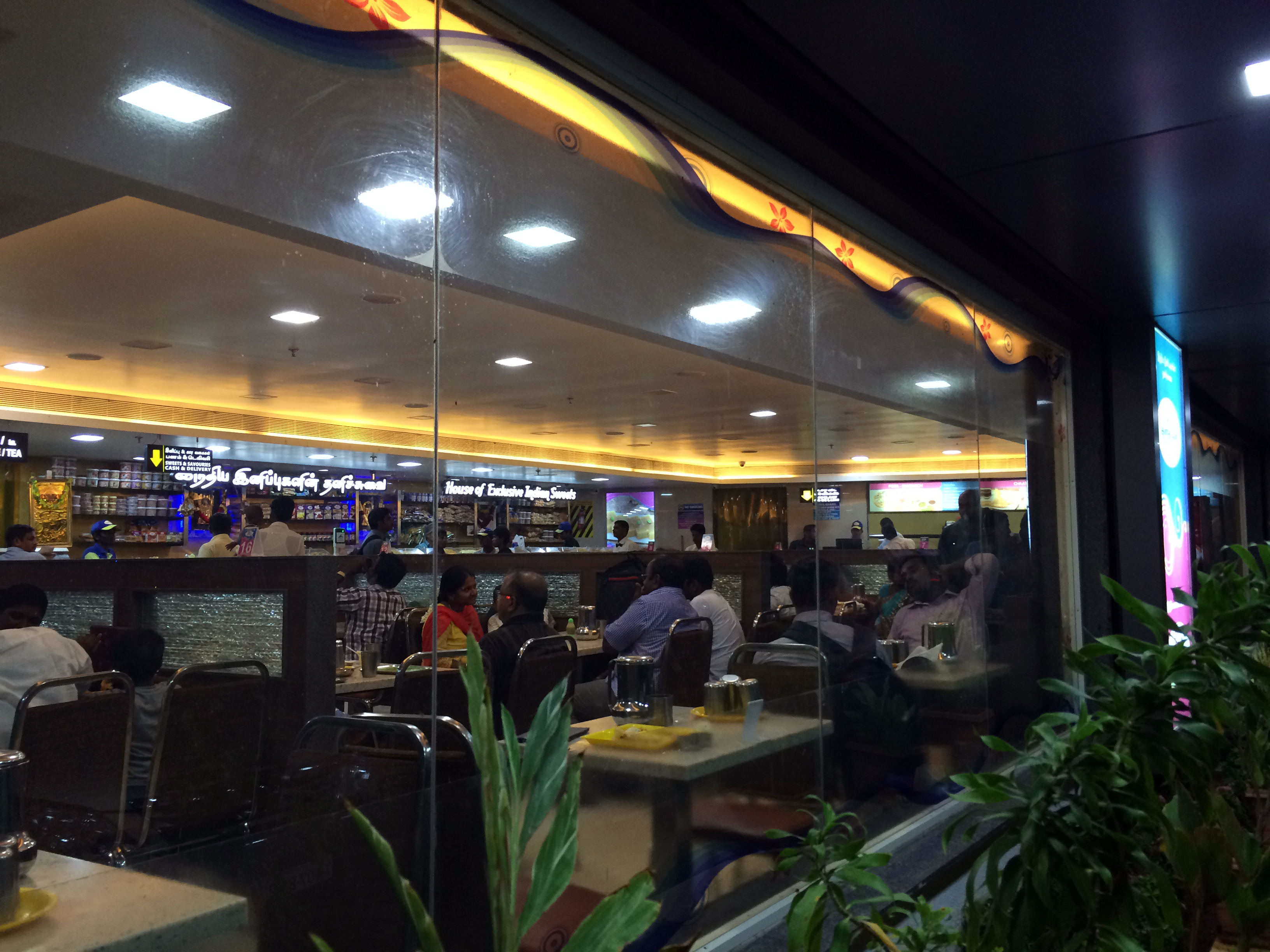 Adayar Anand Bhavan Motel at Maraimalai Nagar, Chennai